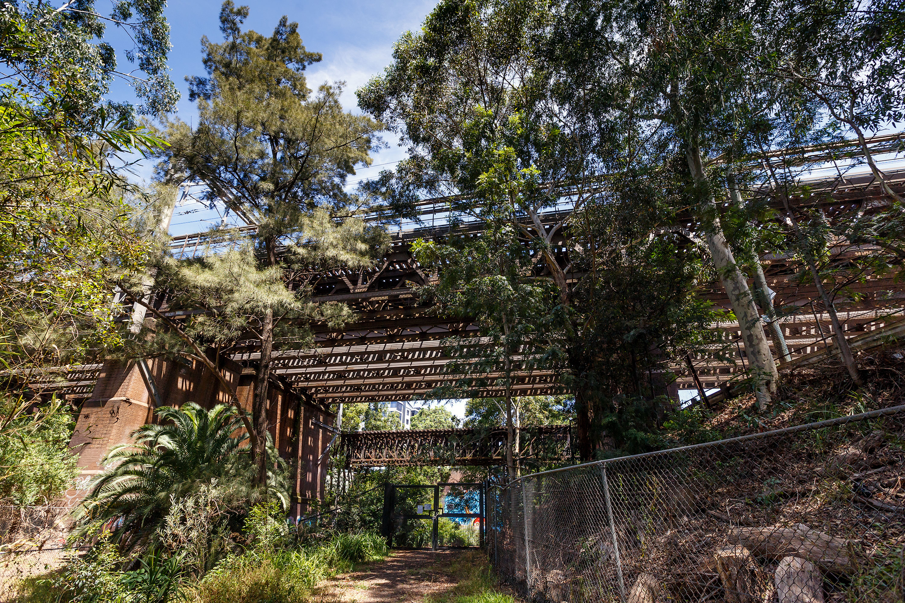 Long Cove Creek railway viaducts in Lewisham, showing Warren Trusses closest, plate web girders behind them and displayed Whipple trusses in background.